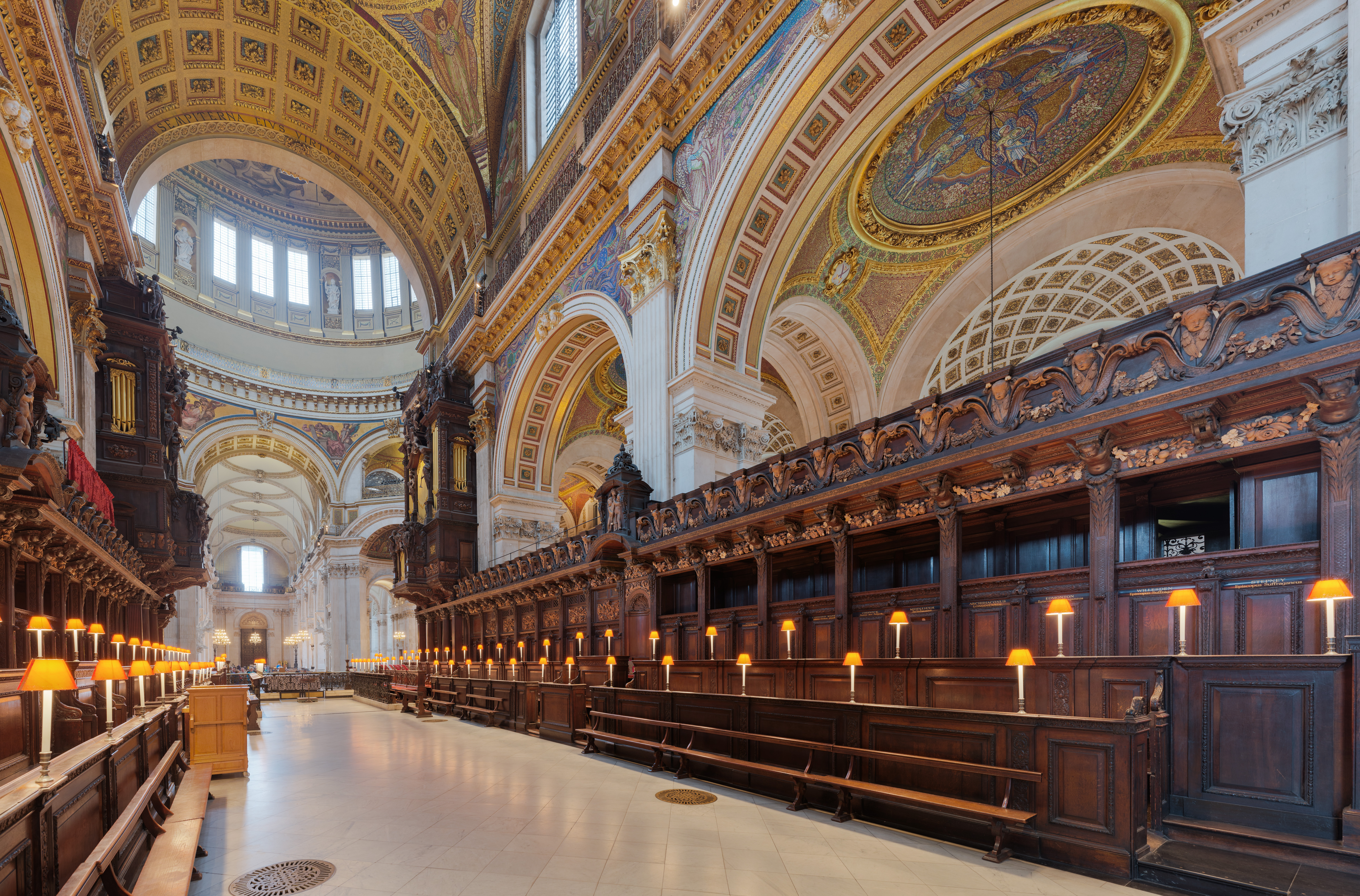 The view looking north west towards the northern side of the choir of St Paul's Cathedral.